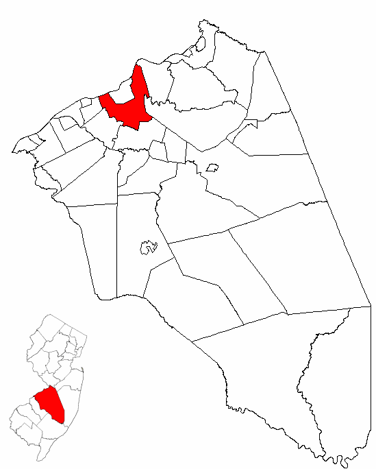 Map of Burlington County highlighting Burlington Township